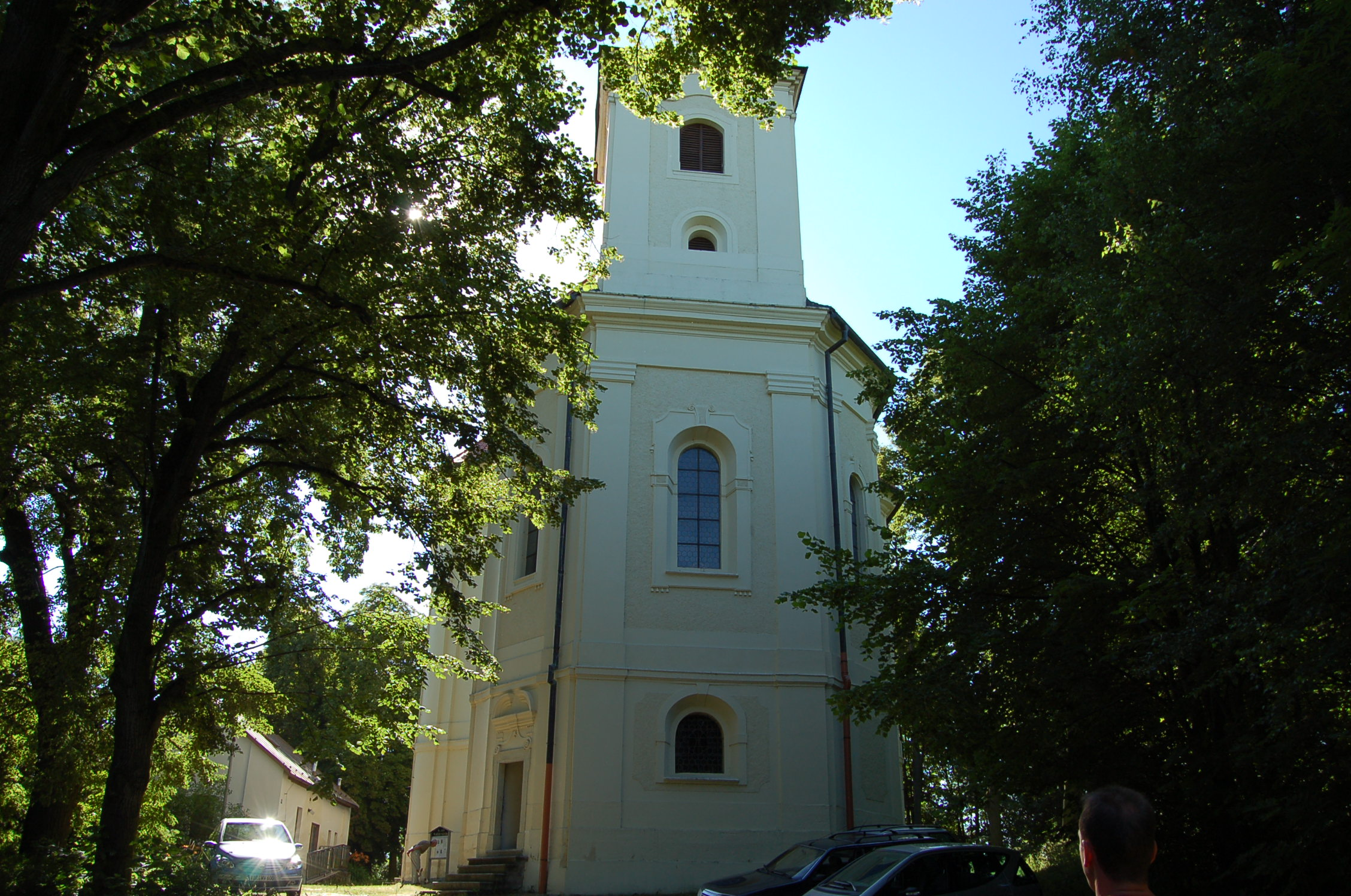 Church of St Anne in Planá, Tachov District, Czech Republic.